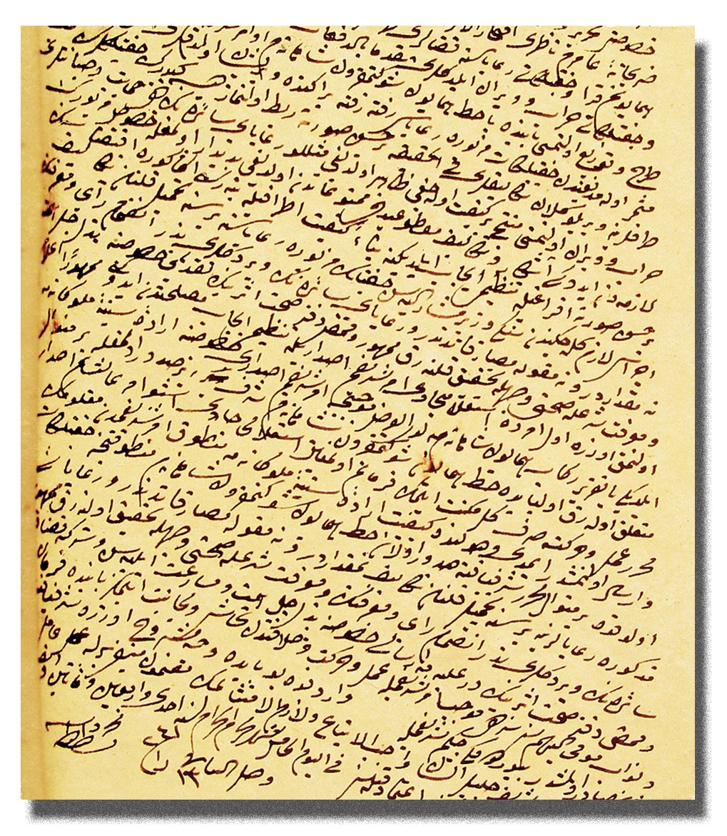 The edict of Mahmud II This media file is produced by Wikipedian in Residence in Category:Wikipedian in Residence at DARM in 2016.